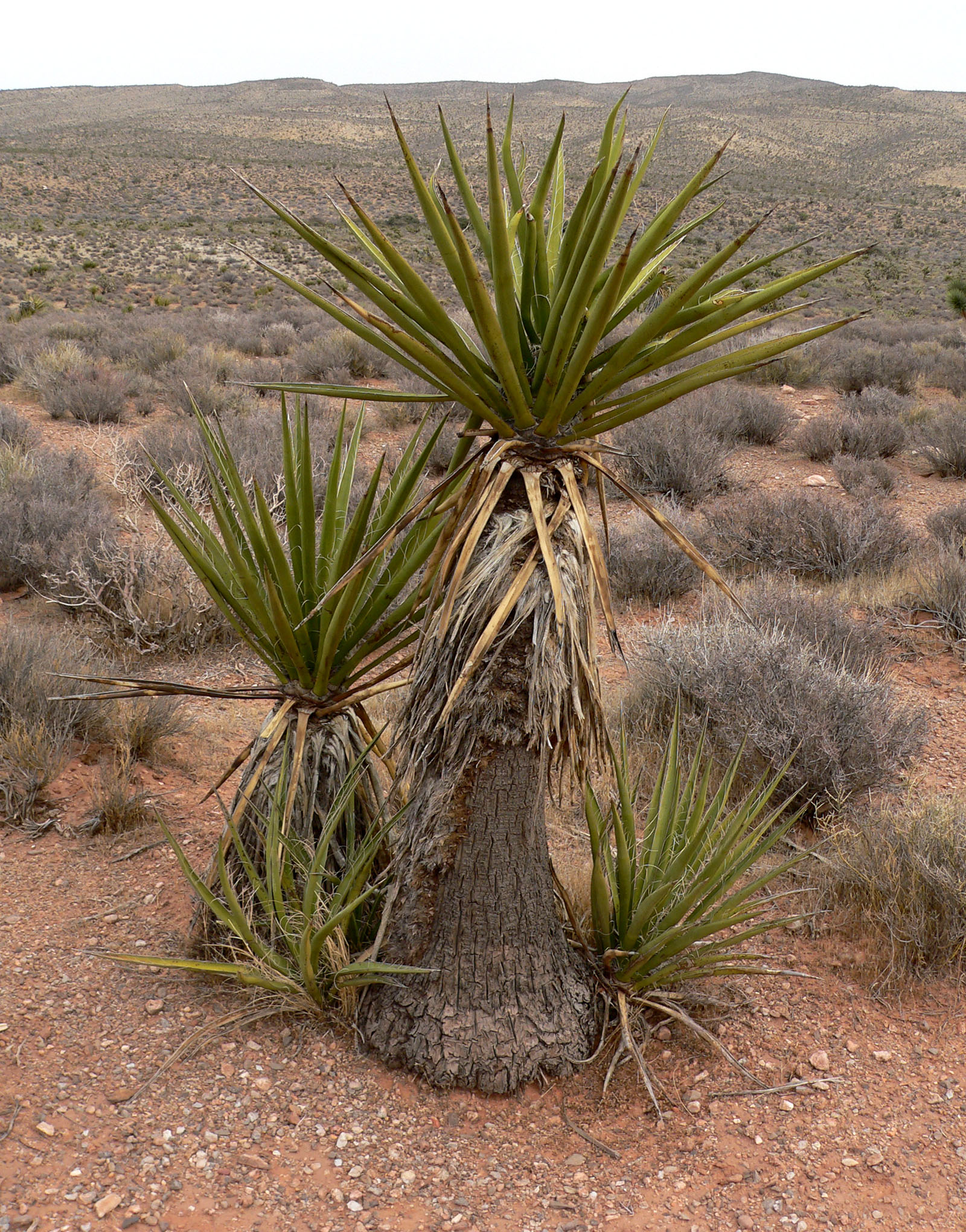 Yucca schidigera near mouth of Oak Creek Canyon, Red Rock Canyon, southern Nevada